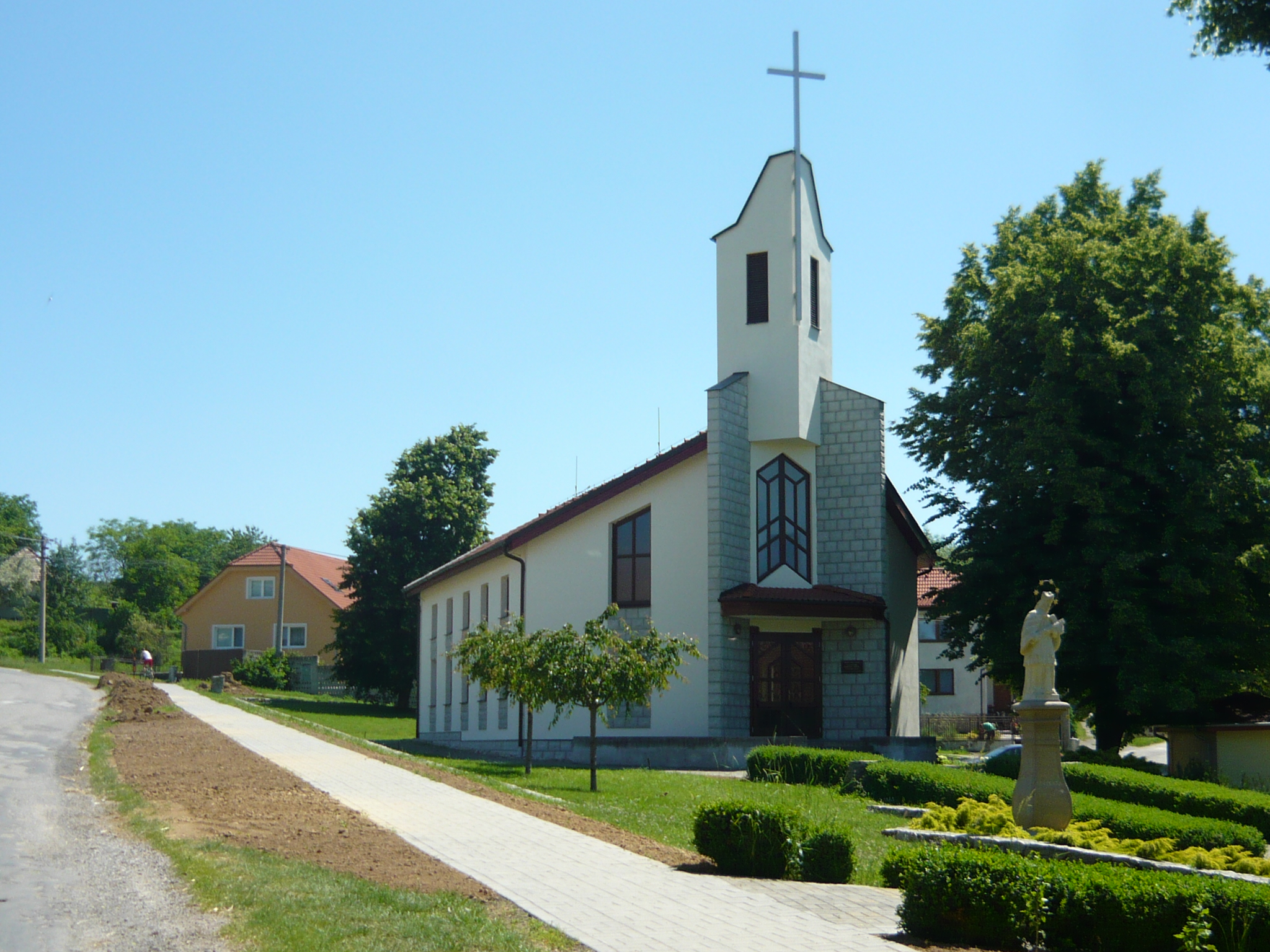 Church of the Elevation of the Holy Cross in Tvrdomestice, Slovakia.